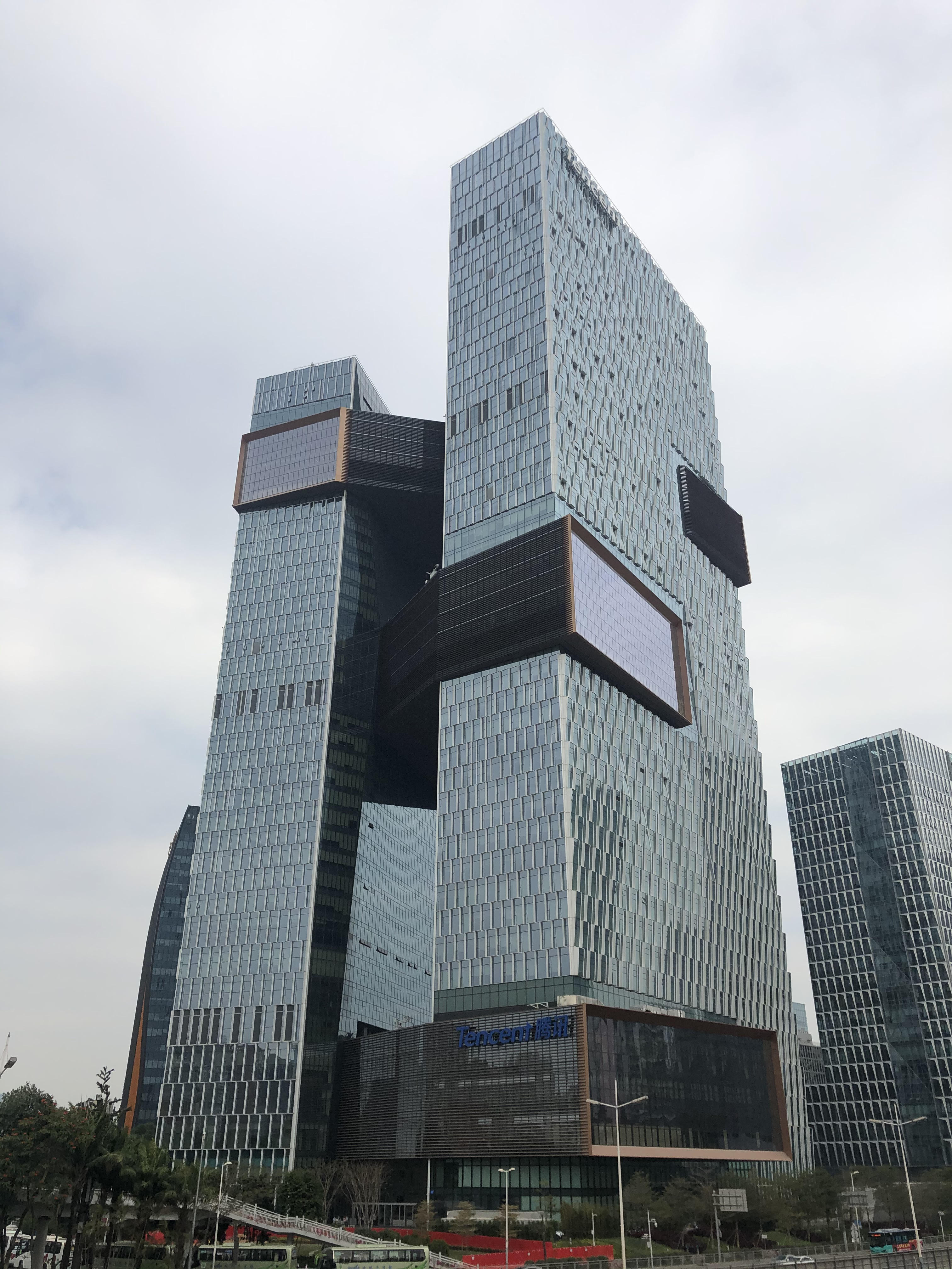 Tencent headquarters in the Nanshan District of Shenzhen, China.